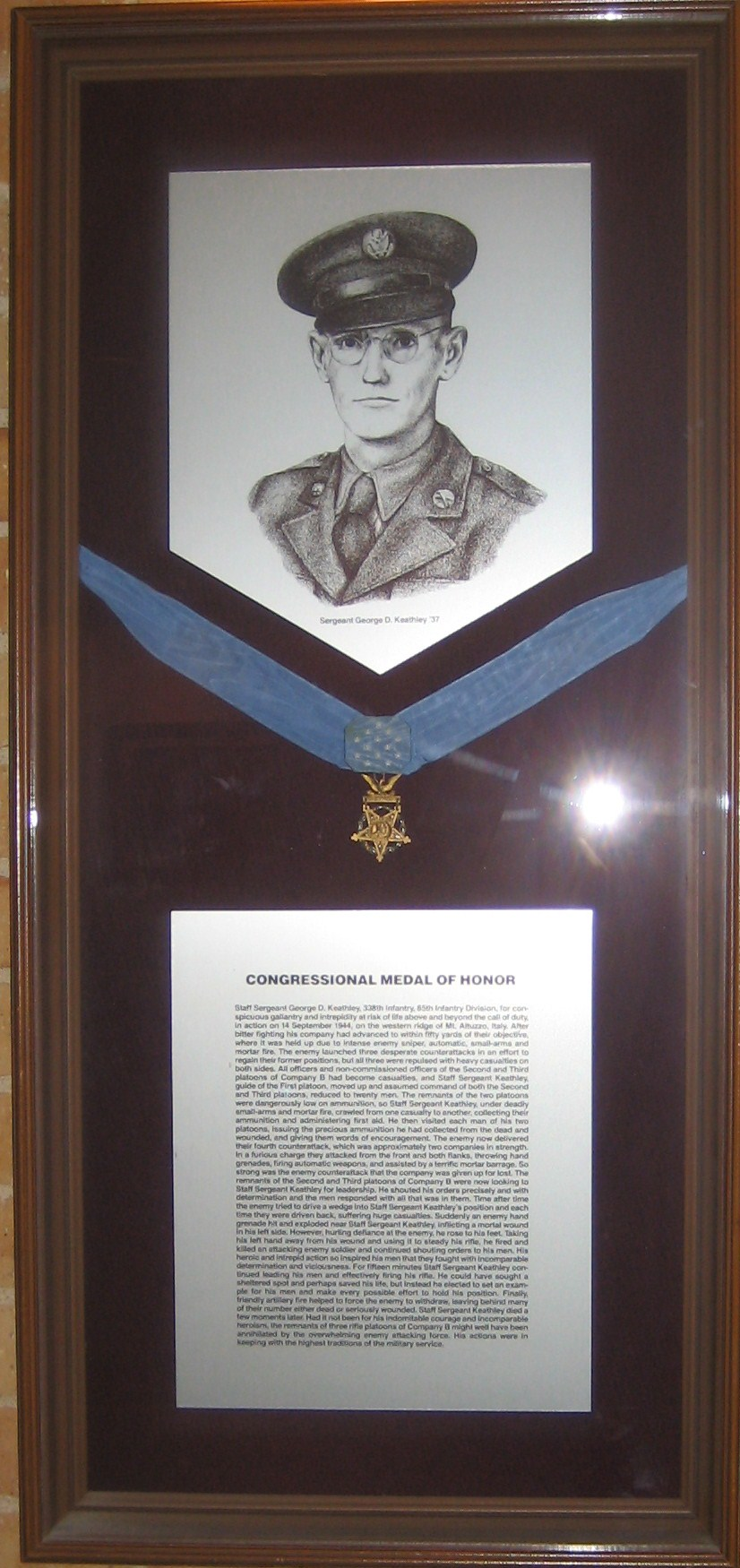 An image of George D. Keathley, a specimen Medal of Honor and his citation on display at the Memorial Student Center at Texas A&M University